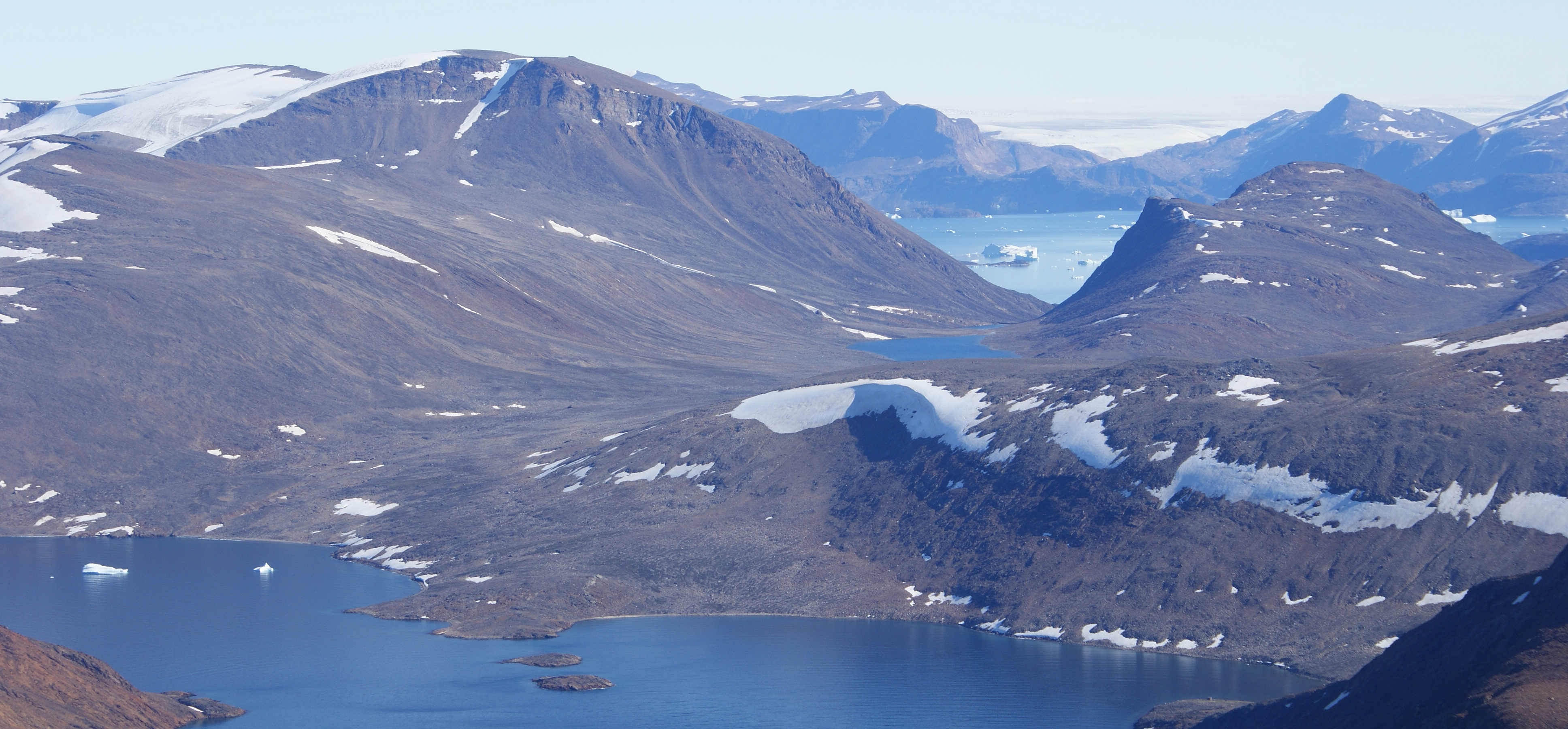 Nuussuaq Peninsula (Upernavik Archipelago), Greenland. Aerial view from the west, photographed from the Air Greenland Bell 212 helicopter during the Kullorsuaq-Nuussuaq flight. Sermikassaq mountain glacier in the top left, Sermersuaq (Greenland icesheet) in the far background.